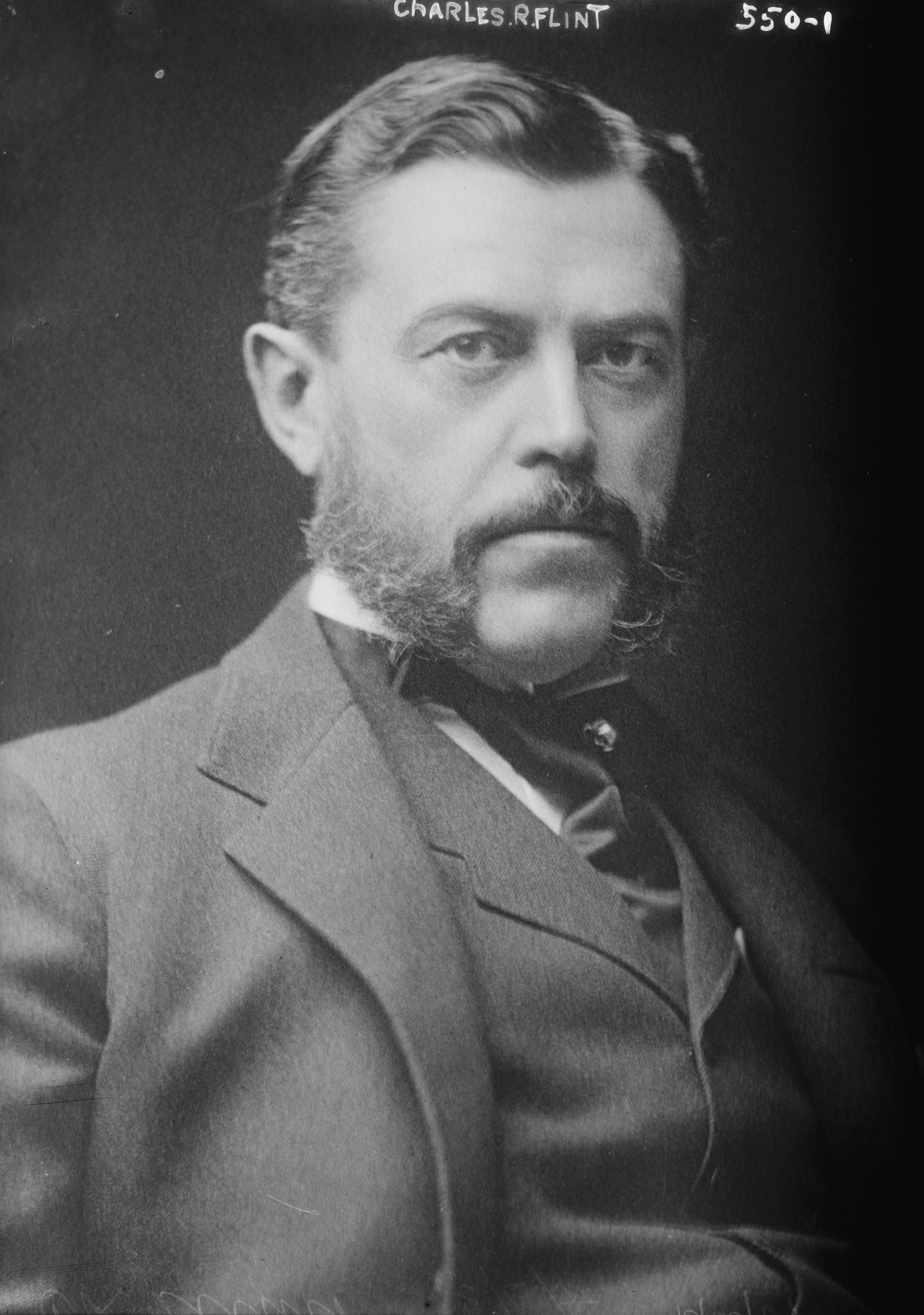 American businessman Charles Ranlett Flint, founder of the Computing-Tabulating-Recording Company (later known as IBM).